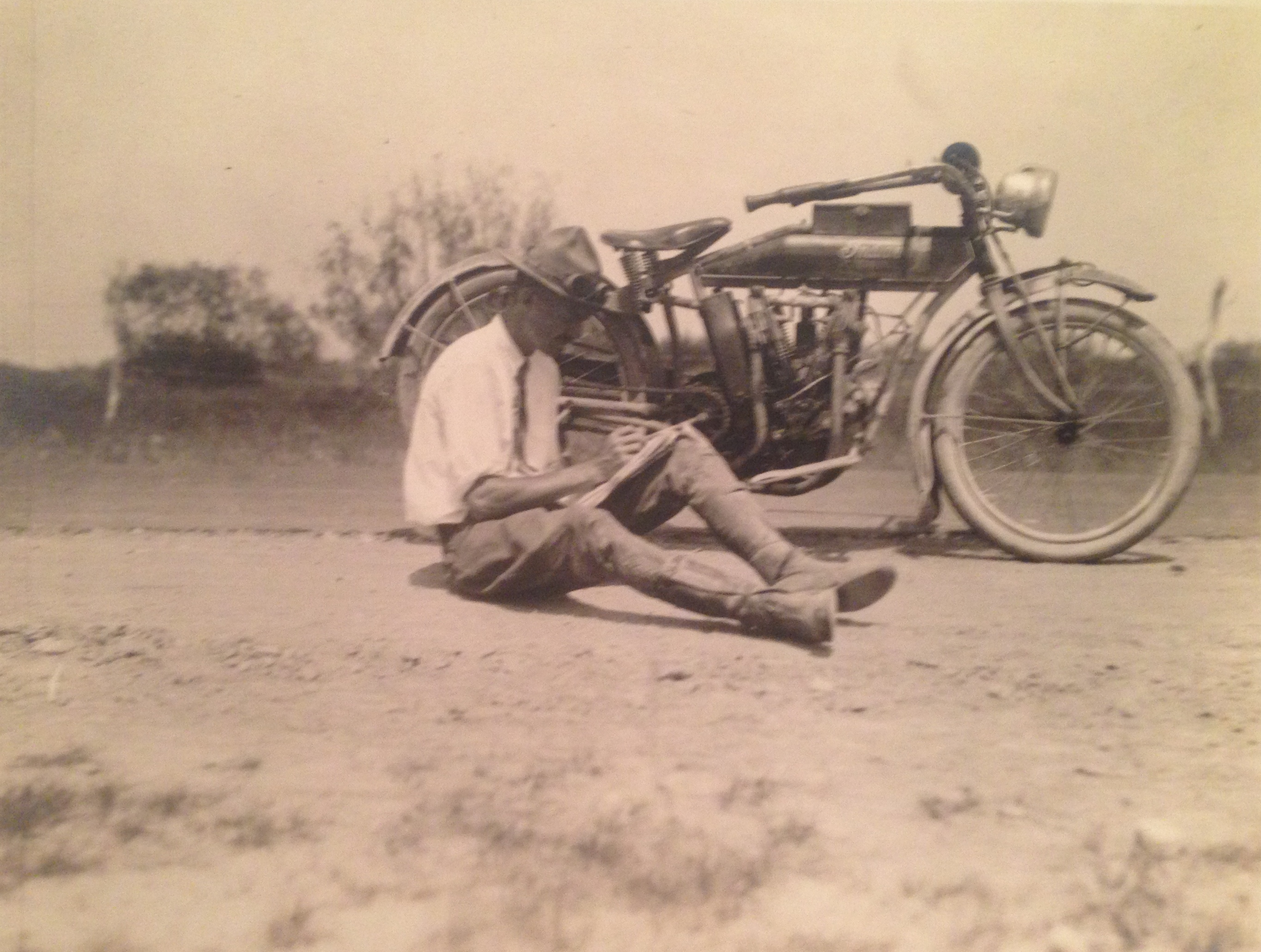 Charles Grey's reporting during the Pancho Villa expedition with 1909 Indian 5 HP Light Twin featuring the five-horsepower, 38-cubic inch, twin-cylinder, pocket-valve engine, Hedstrom carburetor and Bosch magneto in its original version.